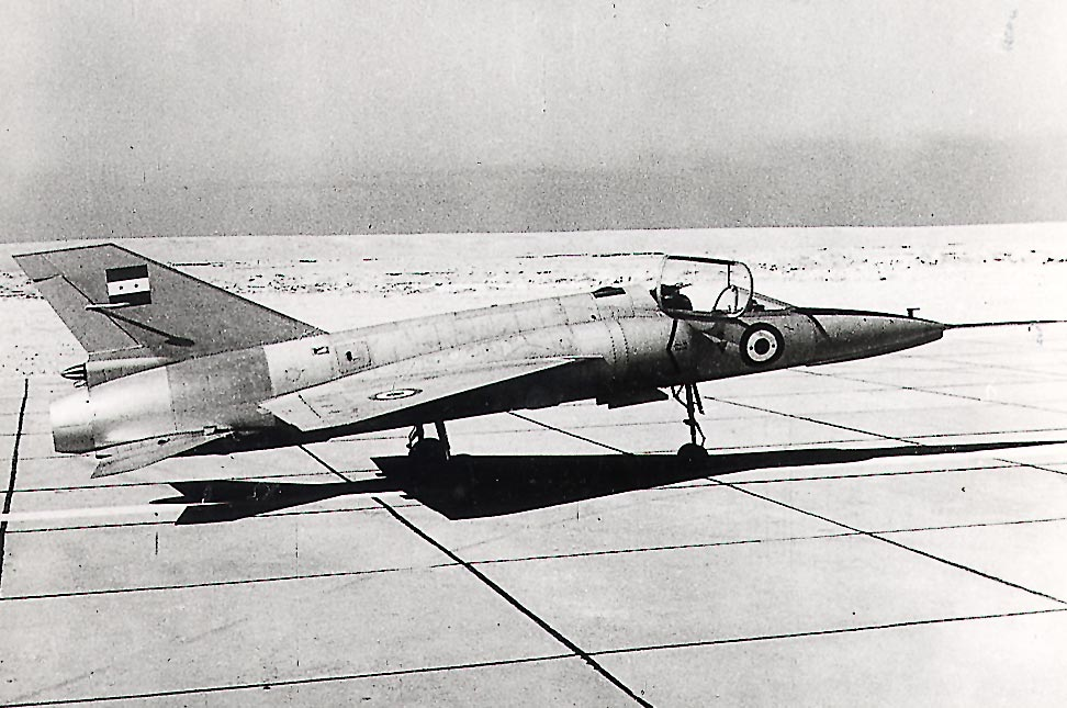 Perspective view of the HA-300 airplane